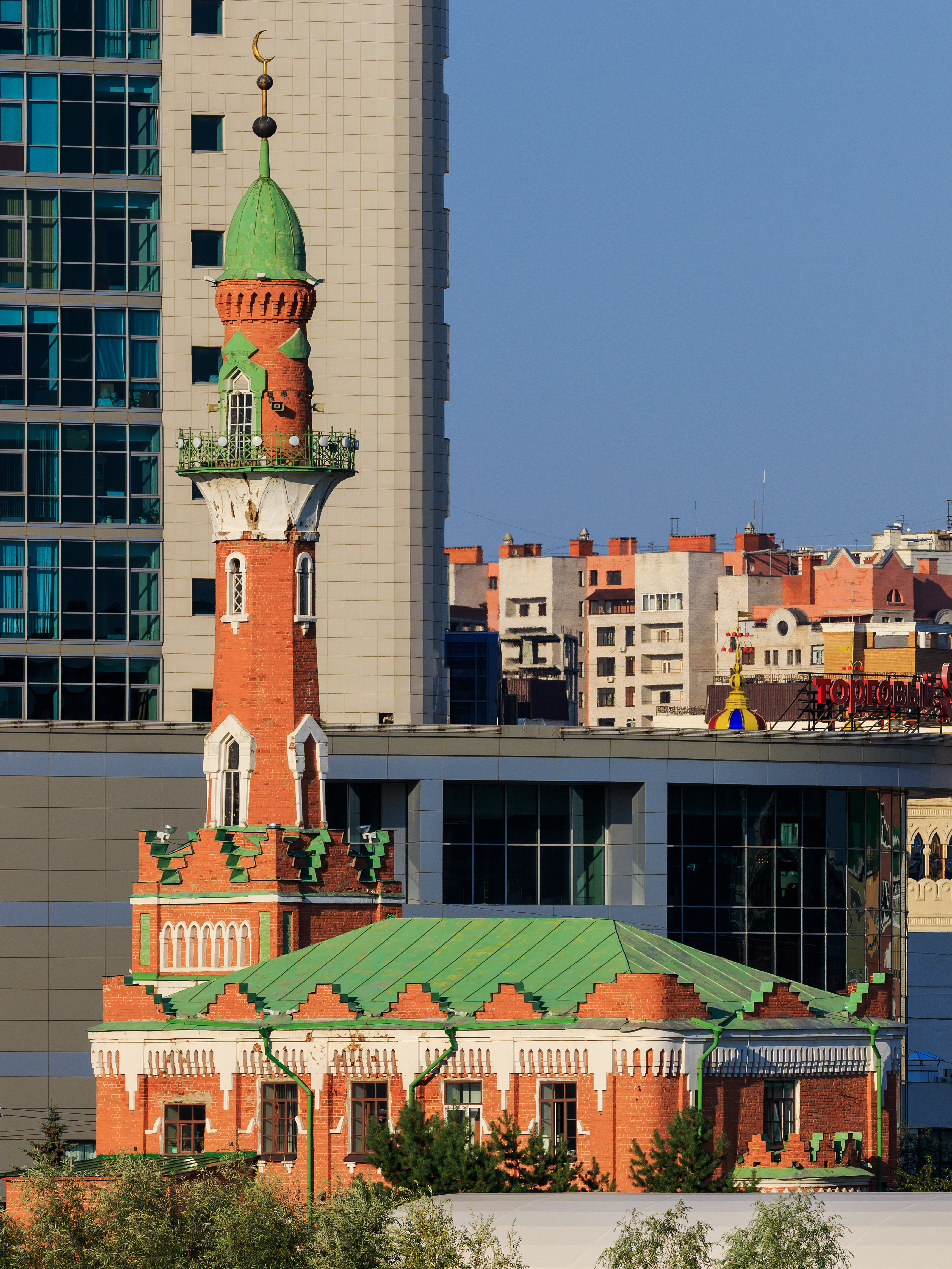 Zakabannaya Mosque in Kazan, Russia